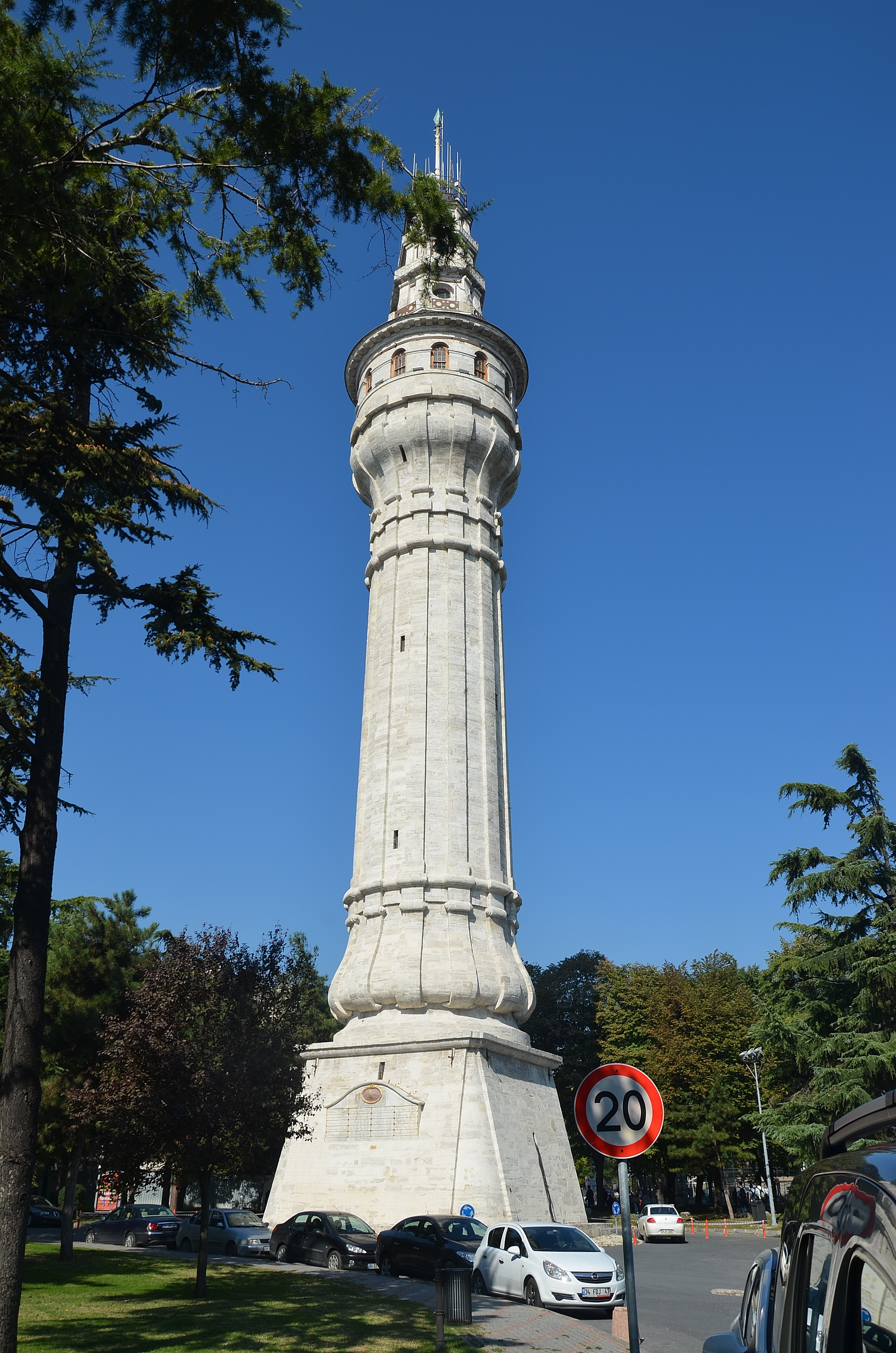 Beyazıt Tower in the main campus of Istanbul University